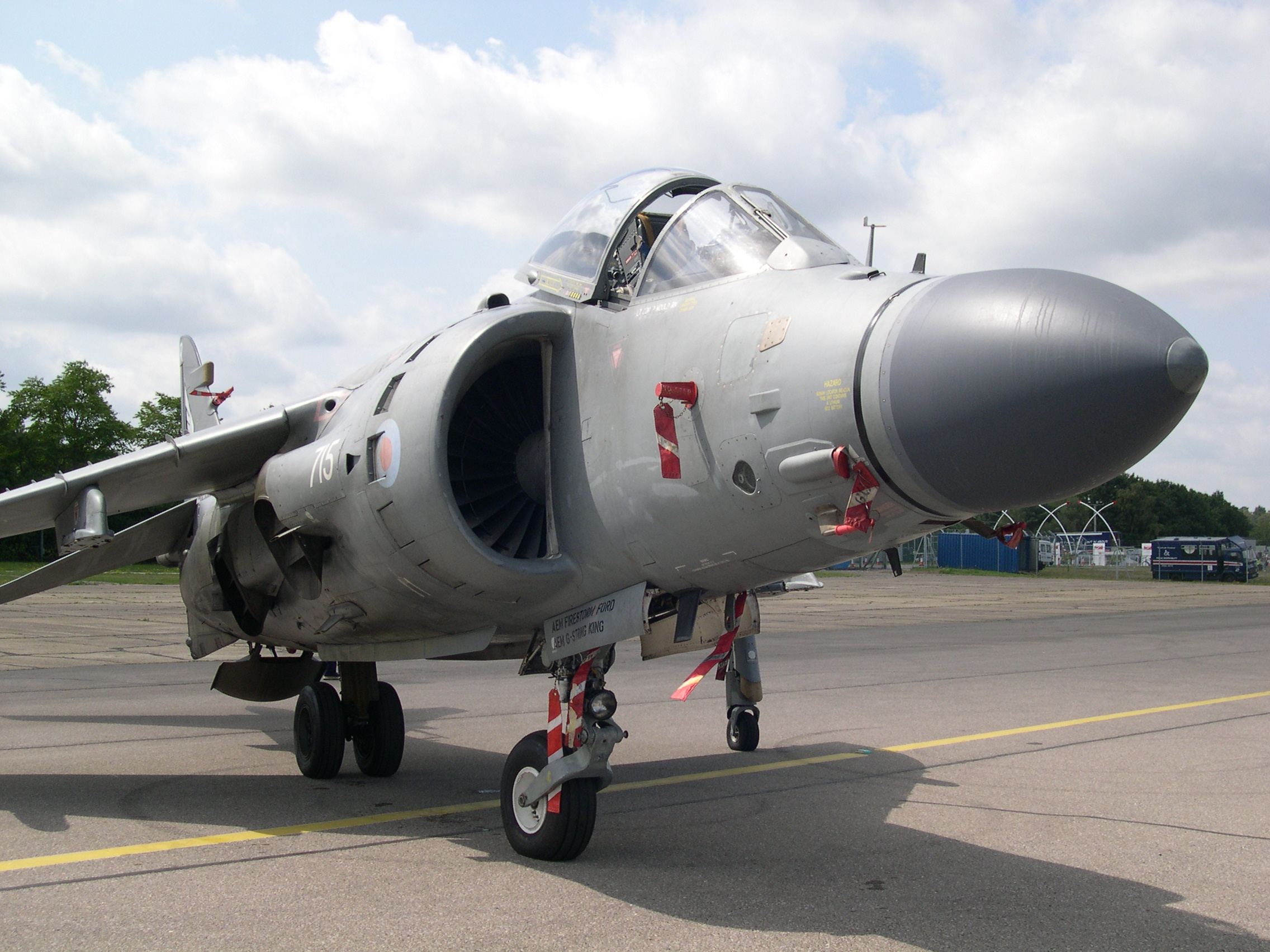 A Royal Navy BAe Sea Harrier FA2 from 801 Naval Air Squadron.